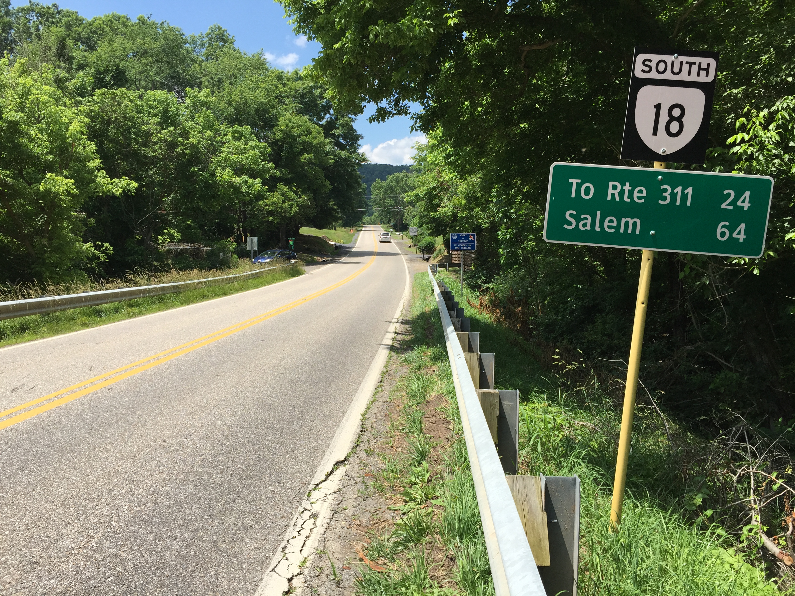 View south along Virginia State Route 18 (Potts Creek Road) at Potts Creek, just southwest of Covington in Alleghany County, Virginia